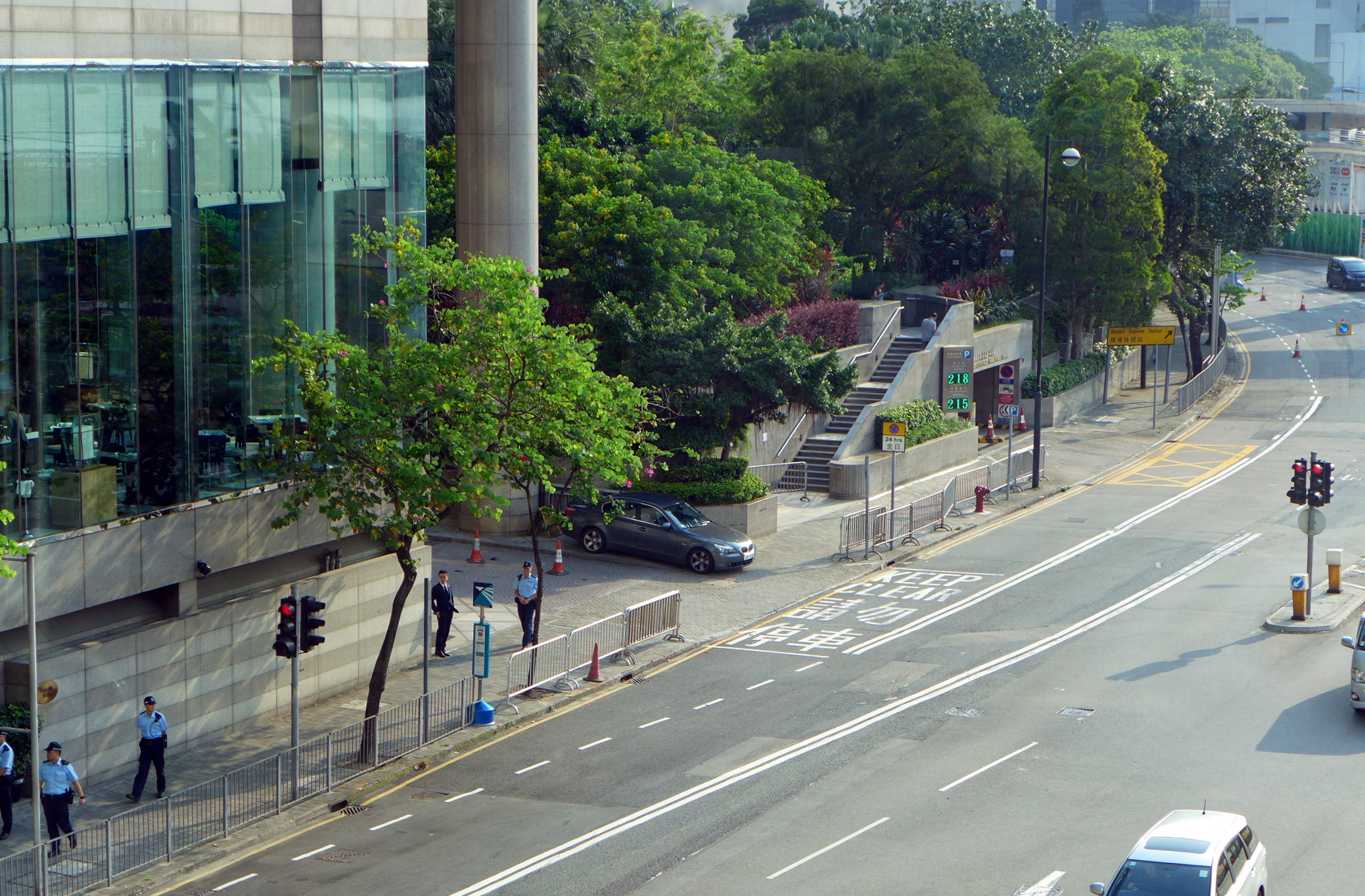 Grand Hyatt Hong Kong Entrance